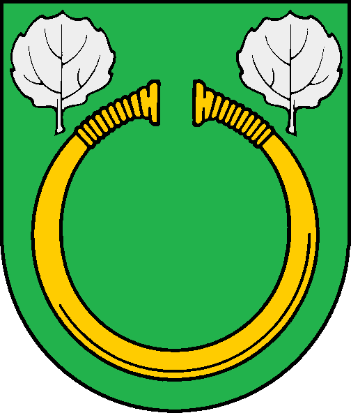 Coat of arms of the municipality Großenaspe in Schleswig-Holstein, Germany.